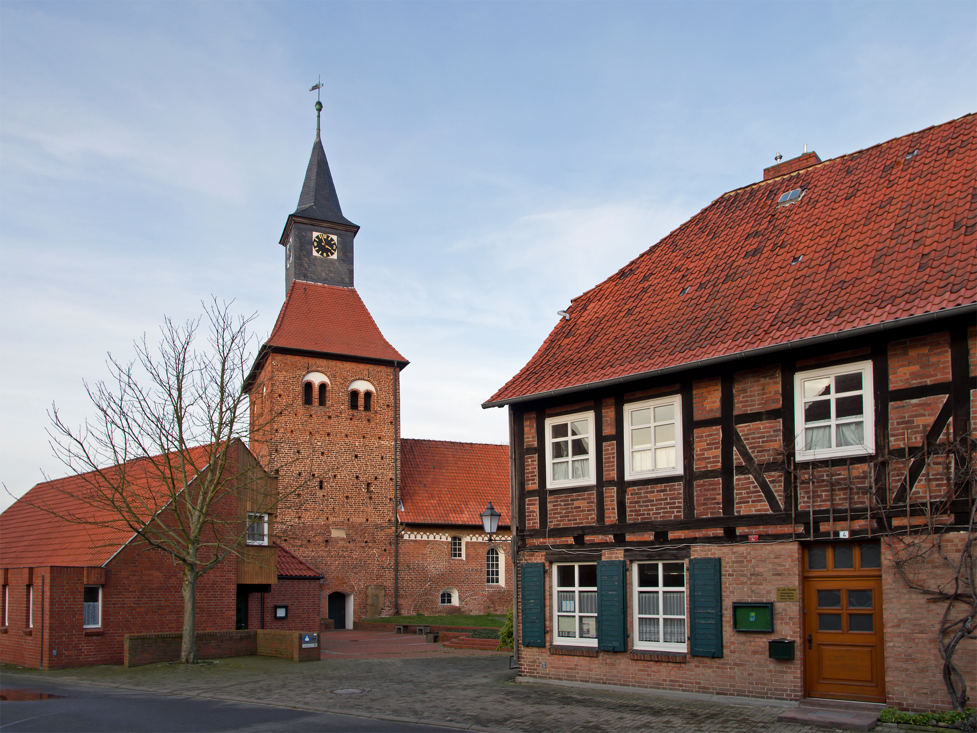 Church of the small town Schnackenburg (district Lüchow-Dannenberg, northern Germany).